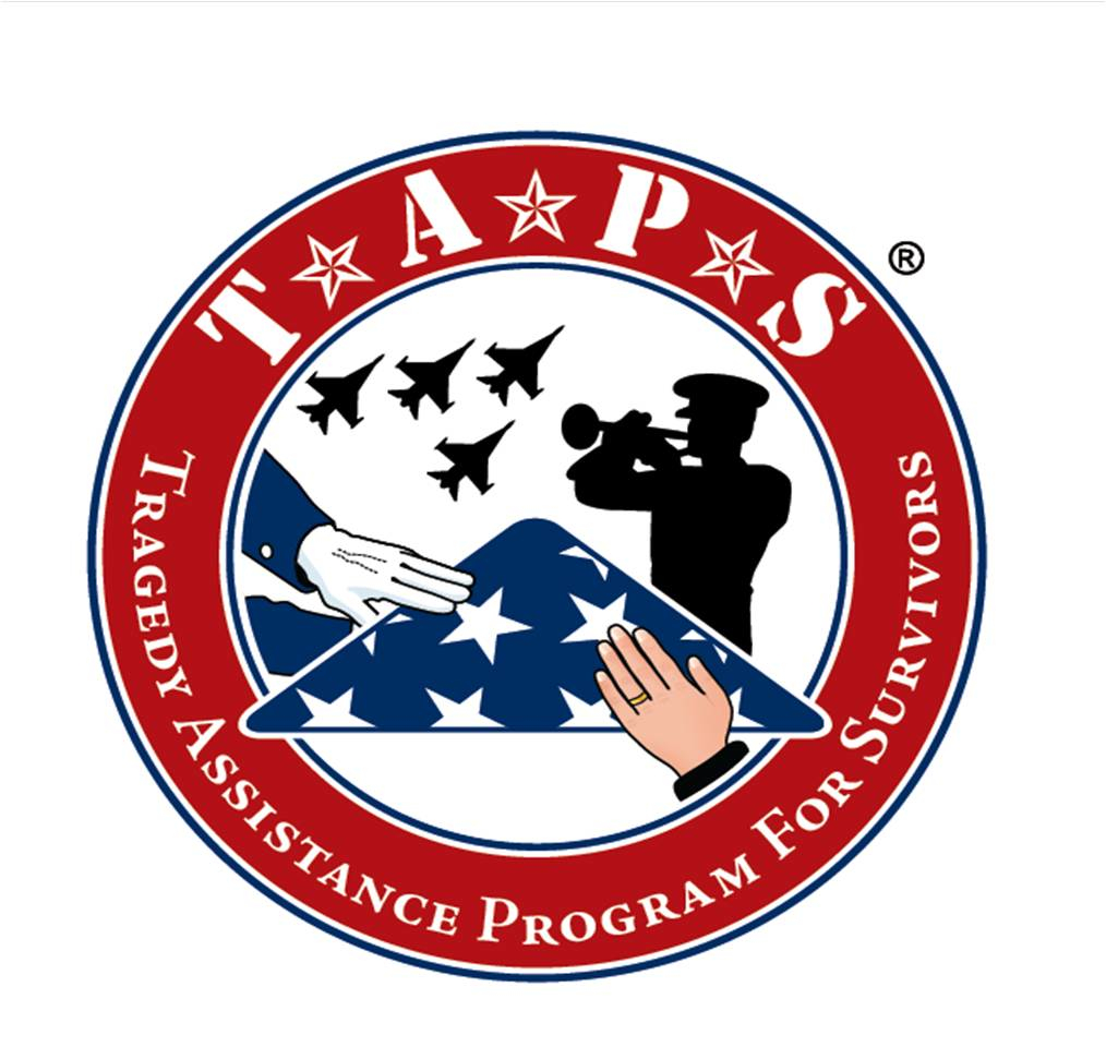 Logo of the Tragedy Assistance Program for Survivors (TAPS), a U.S. nonprofit organization.